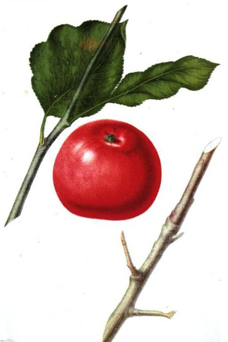 Red Astrachan apple - Pomme Astracan rouge